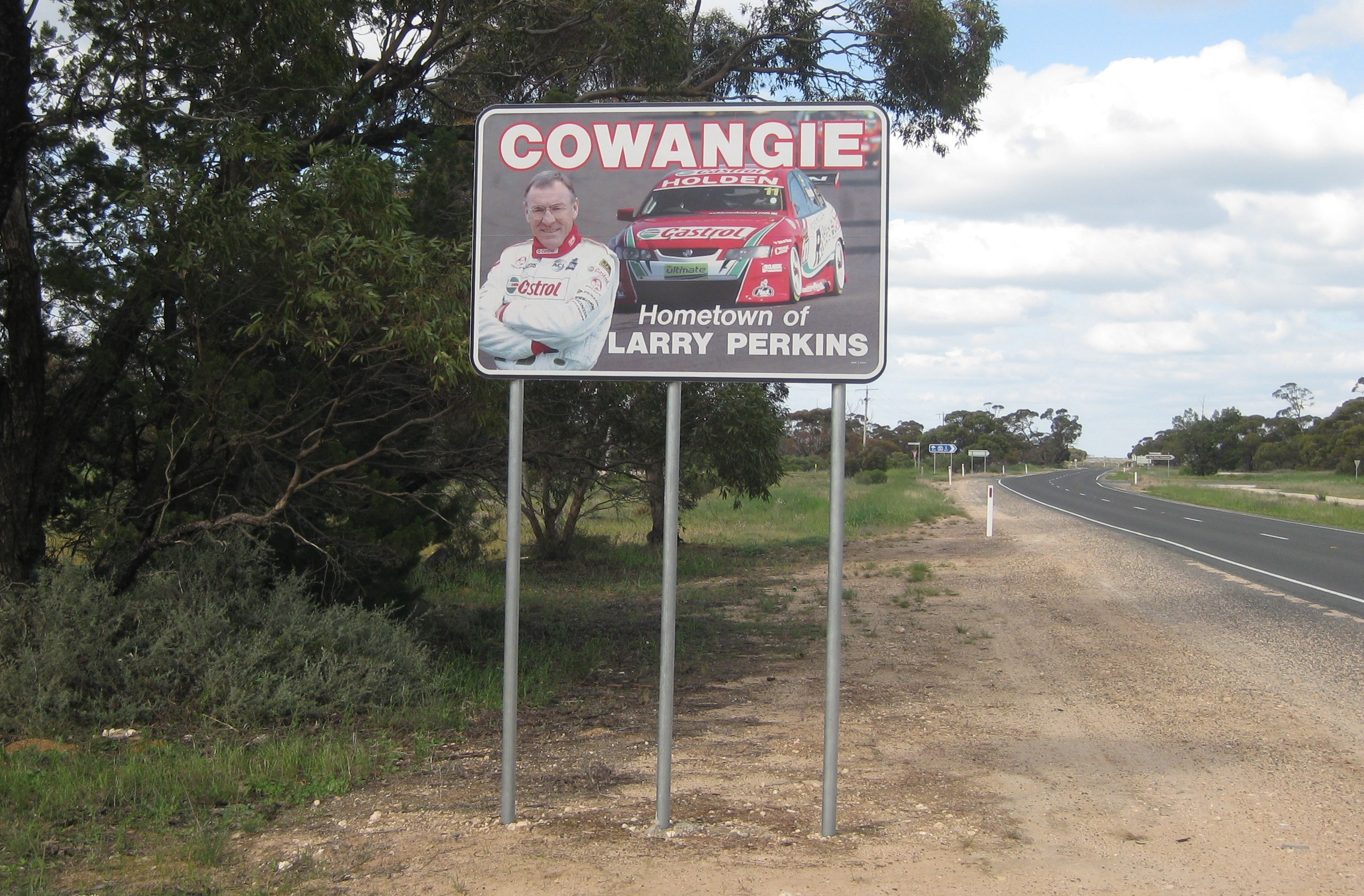 A sign at the town of Cowangie, Victoria, Australia. Larry Perkins is a former Formula One and V8 Supercar racing driver.